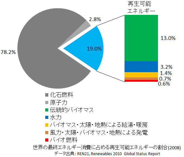 Renewable energy share of global final energy consumption, 2008